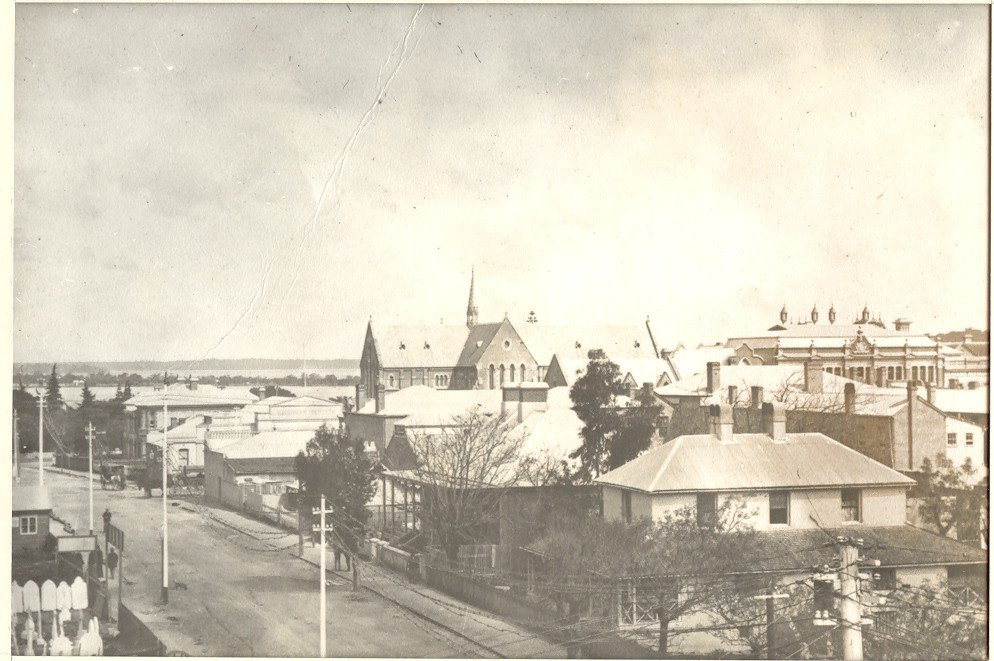 St George's Cathedral in Perth, Western Australia. View from corner Irwin and Murray Streets